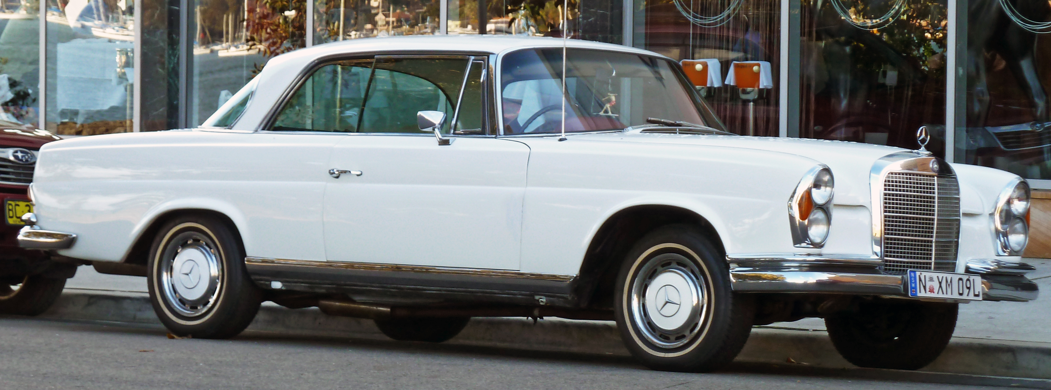 1969 Mercedes-Benz 280 SE (W 111) coupe. Photographed in Sans Souci, New South Wales, Australia.